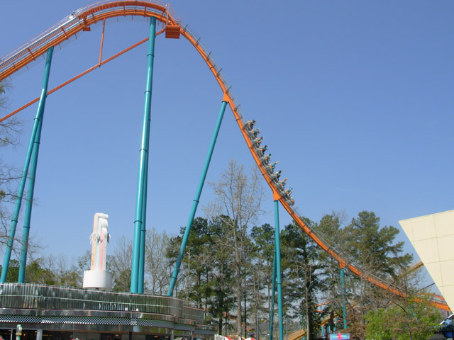 Created by Dustin B.